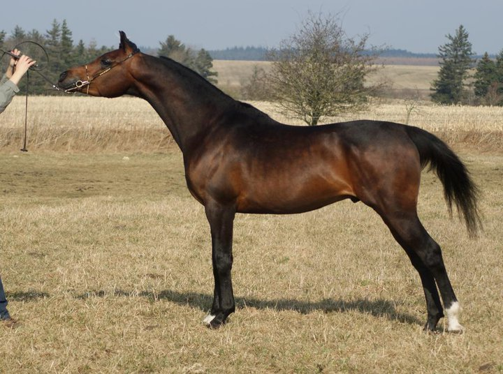 Pure Polish arabian stallion by TrippleCrown winner Ekstern out of the famous P-line through Parella (by Arbil). Sold in utero from world reknown Polish statestud Janow Podlaski. Leased by Barakah.dk in 2011. Shot taken near Videbaek, Denmark.